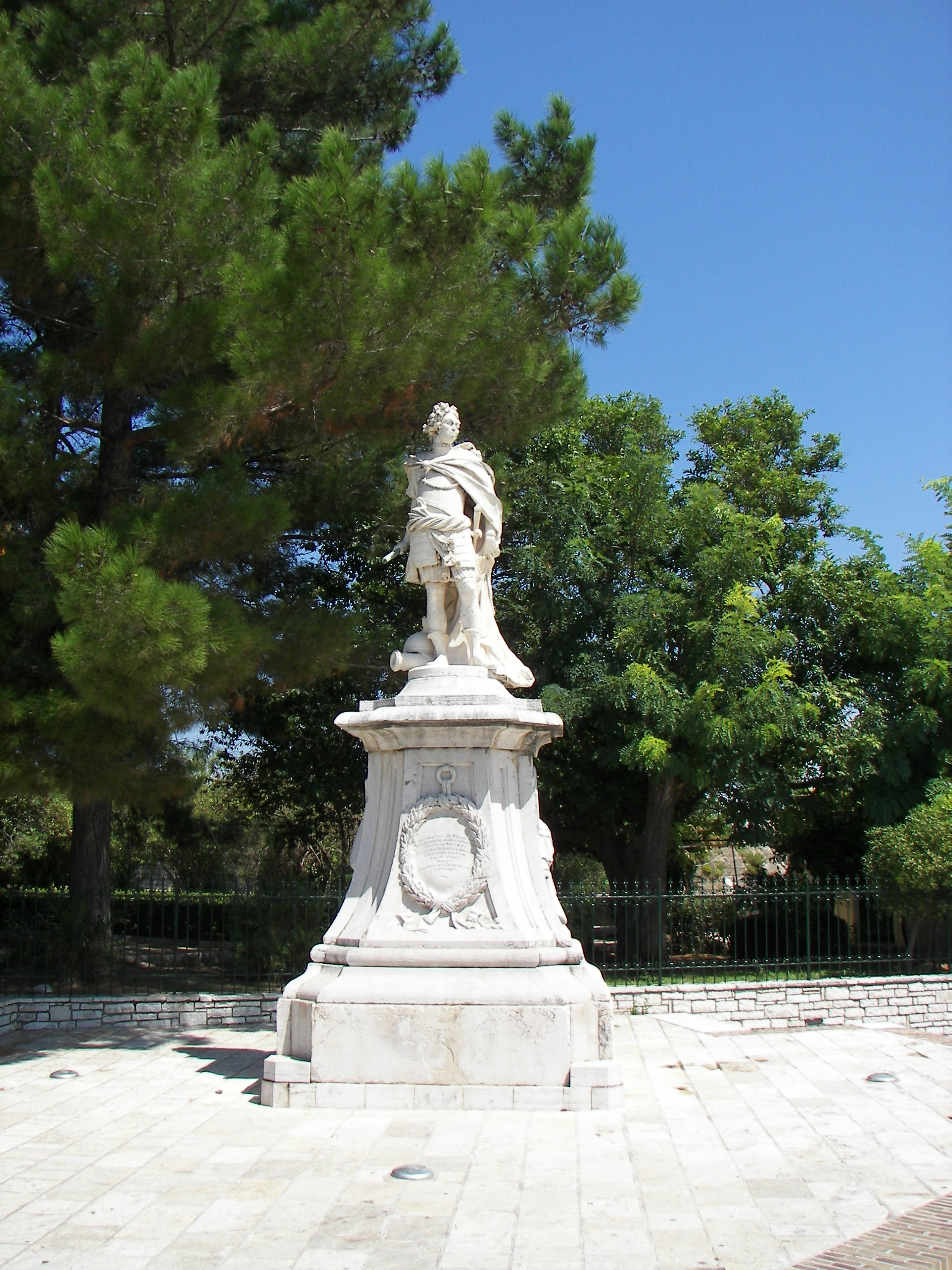 Johann Matthias von der Schulenburg. Monument by Antonio Corradini in Corfu (1716).